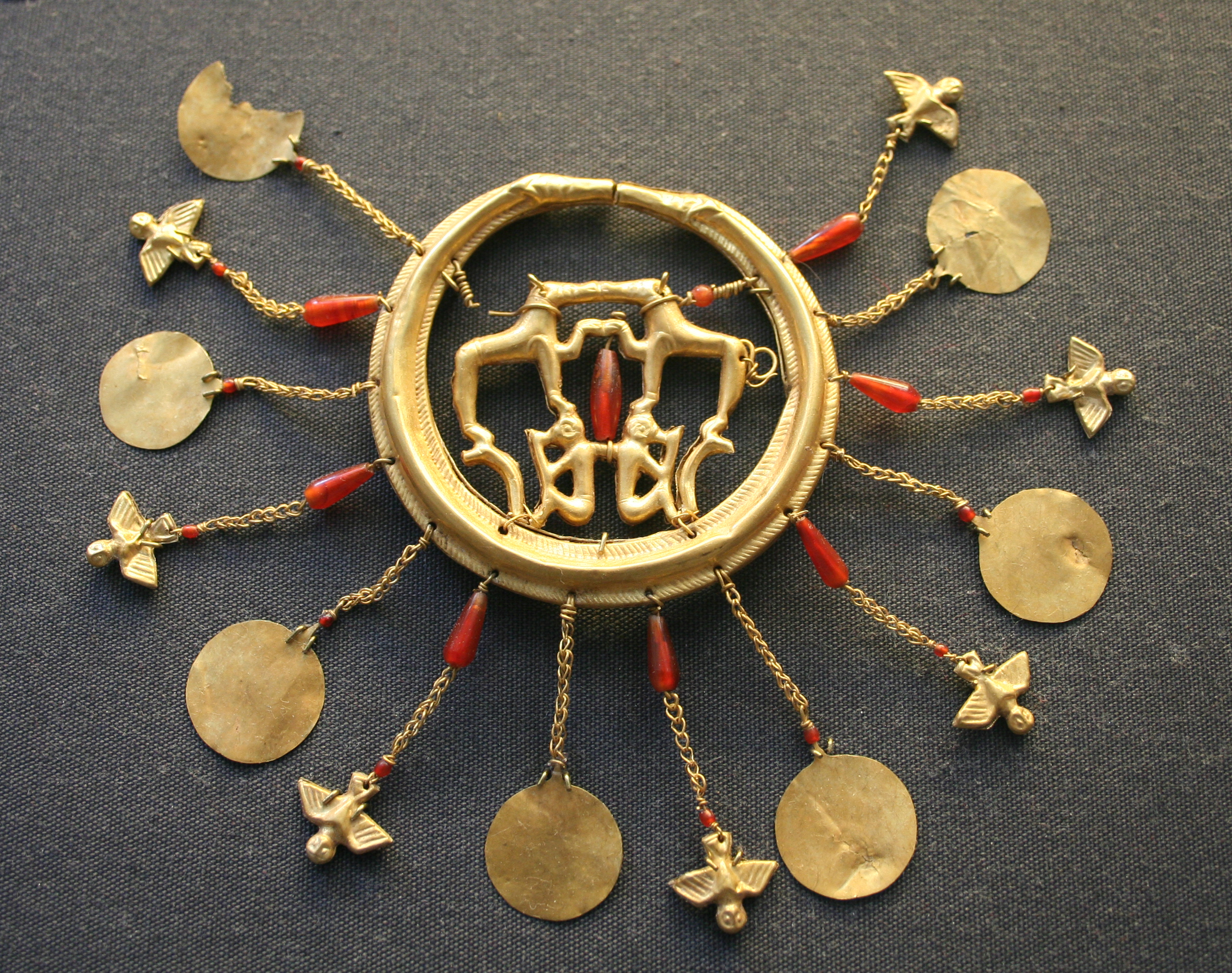 Part of the Aegina treasure. This golden earring is one of a pair, the other is File:Aegina treasure 01.jpg. The main body is hoop from a double-headed snake. Inside are two slim animals, possibly greyhounds, over two monkeys. 14 short chains are hanging from the central part, alternating ending in golden discs and figures of owls. British Museum Catalogue Jewellery #764, the other earring is #763. Another pair of almost identical earrings exist and is numbered as #765 and #766. Description after Higgins: The Aegina Treasure, 1979